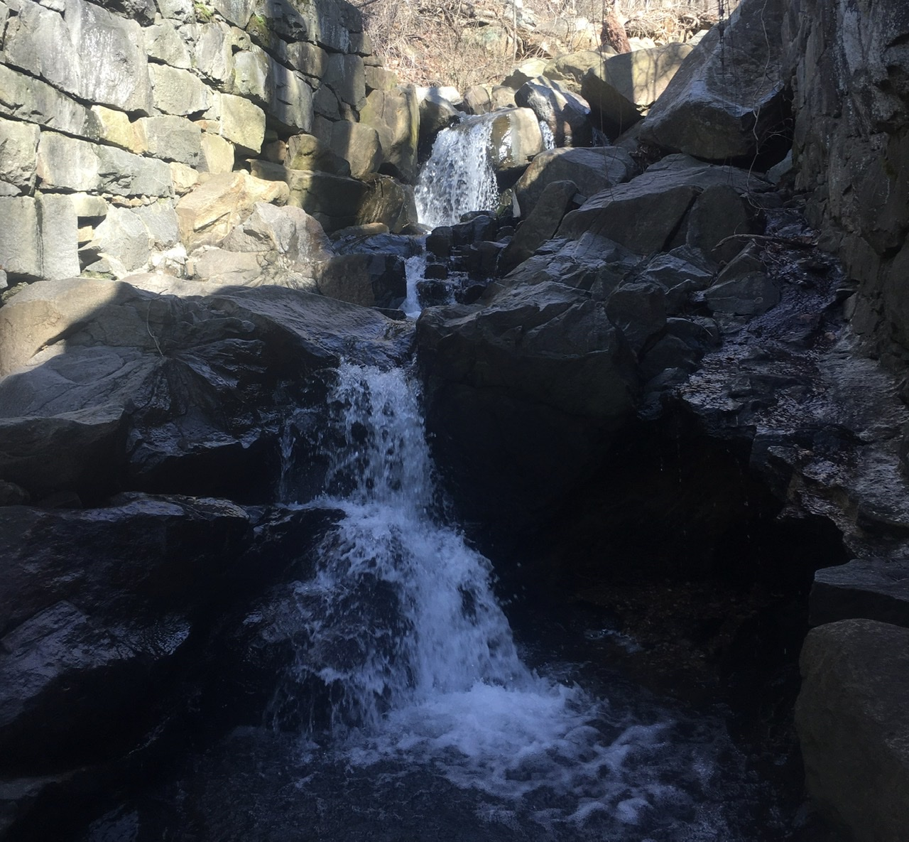 A series of waterfalls in alapocas run state park along alapocas run.